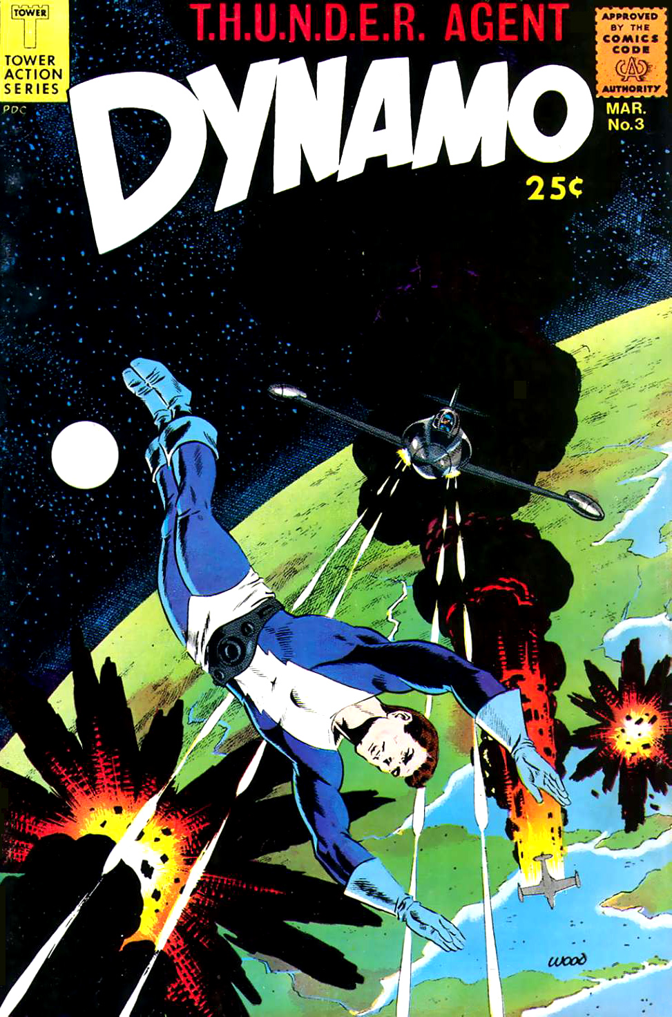 Agent Leonard Brown defies an alien invasion force on the cover of Dynamo number 3 (Tower Comics, March 1967). Artwork by Wally Wood, image has fallen into the public domain as no copyright notice was attached at the time of publication.